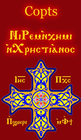 Coptic cross modified